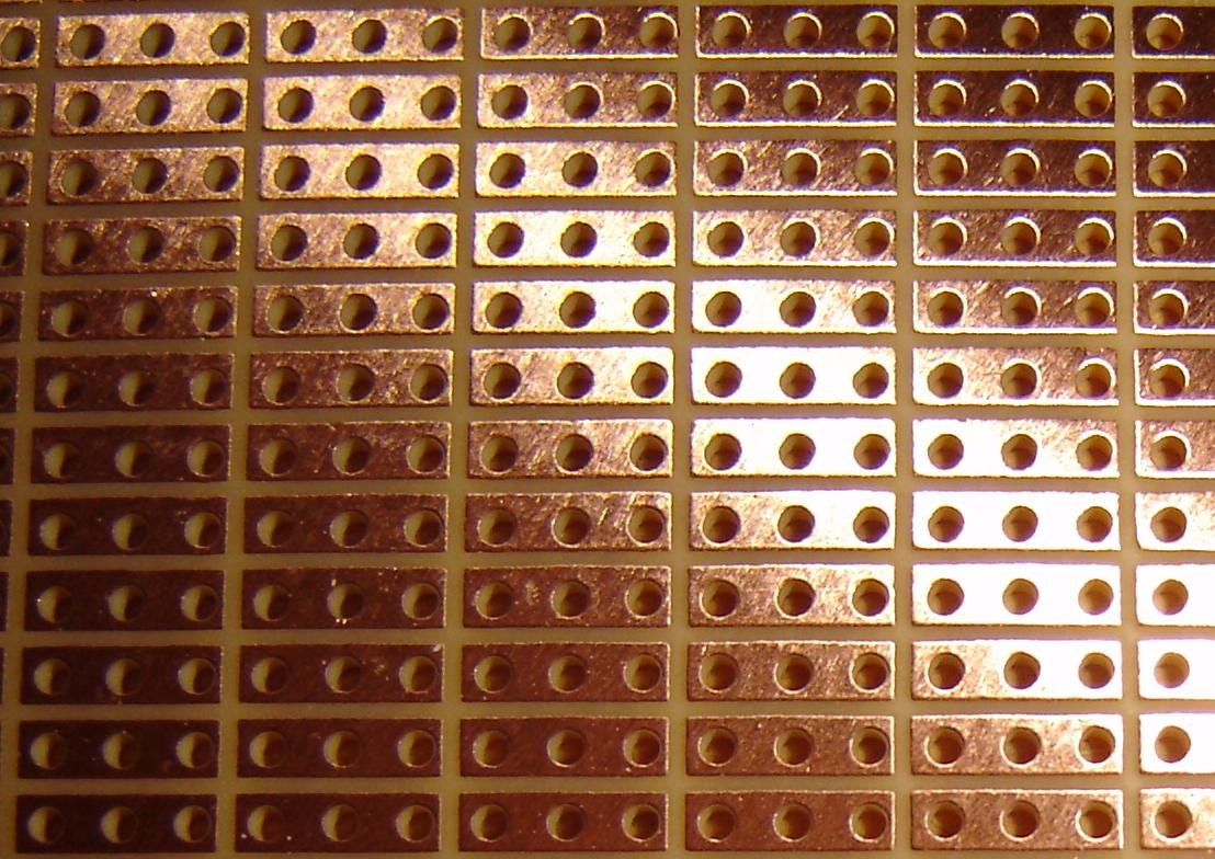 Prototyping board